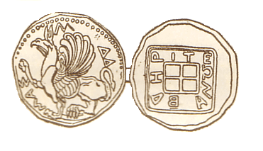 Abdera coin from Teos period with griffon and epigraphic elements designed and exported in photoshop 5.5 by me